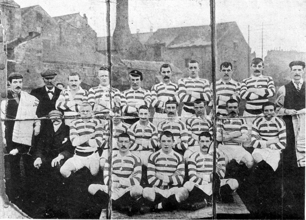 Team of Wigan Football Club.